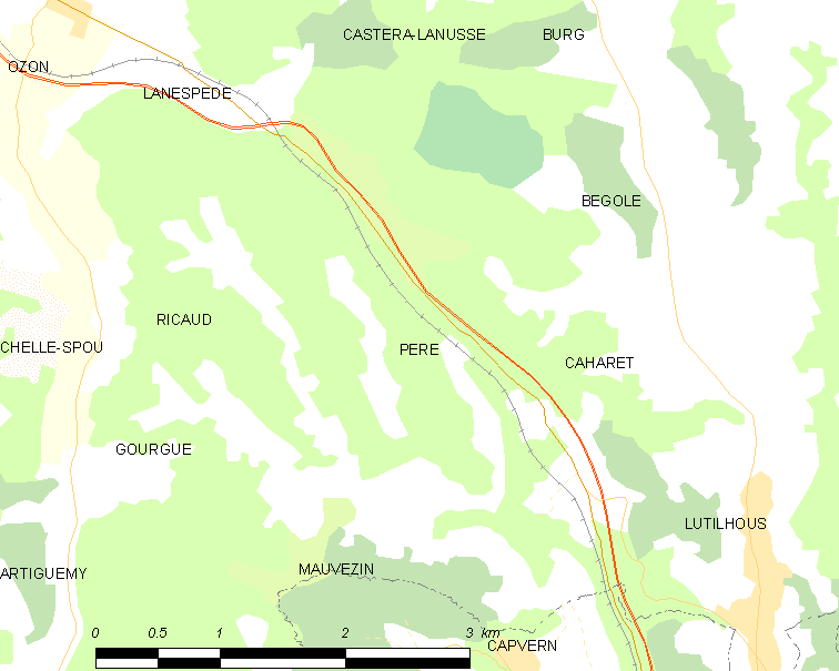 Map of French municipality